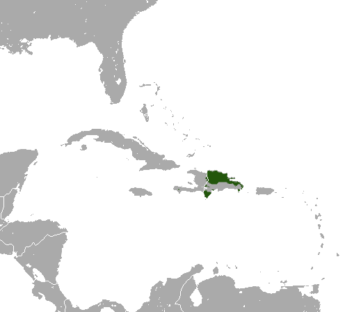 Hispaniolan Solenodon (Solenodon paradoxus) range